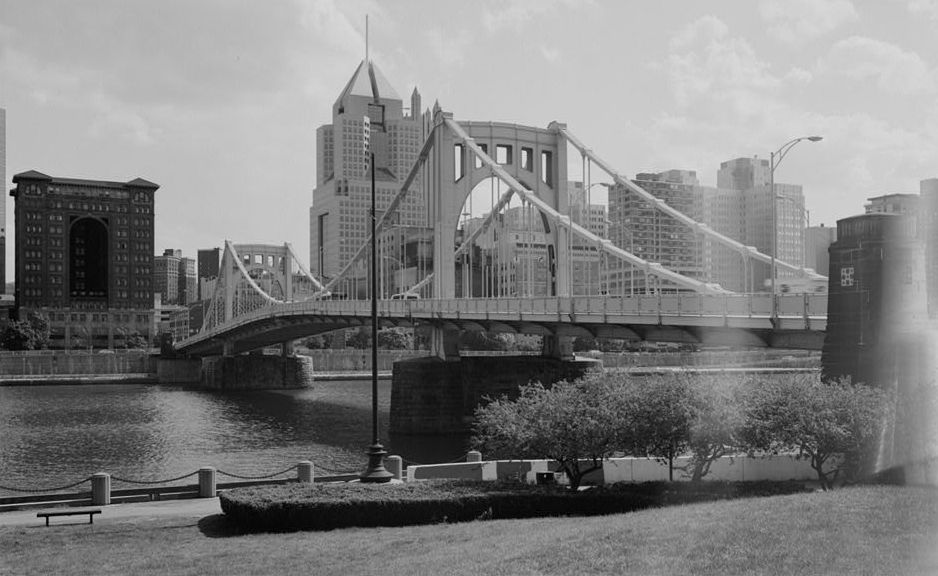 HAER PA,2-PITBU,78A-1 "SIXTH STREET BRIDGE, VIEW SW BY 190 DEGREES, WITH DOWNTOWN PITTSBURGH IN BACKGROUND."